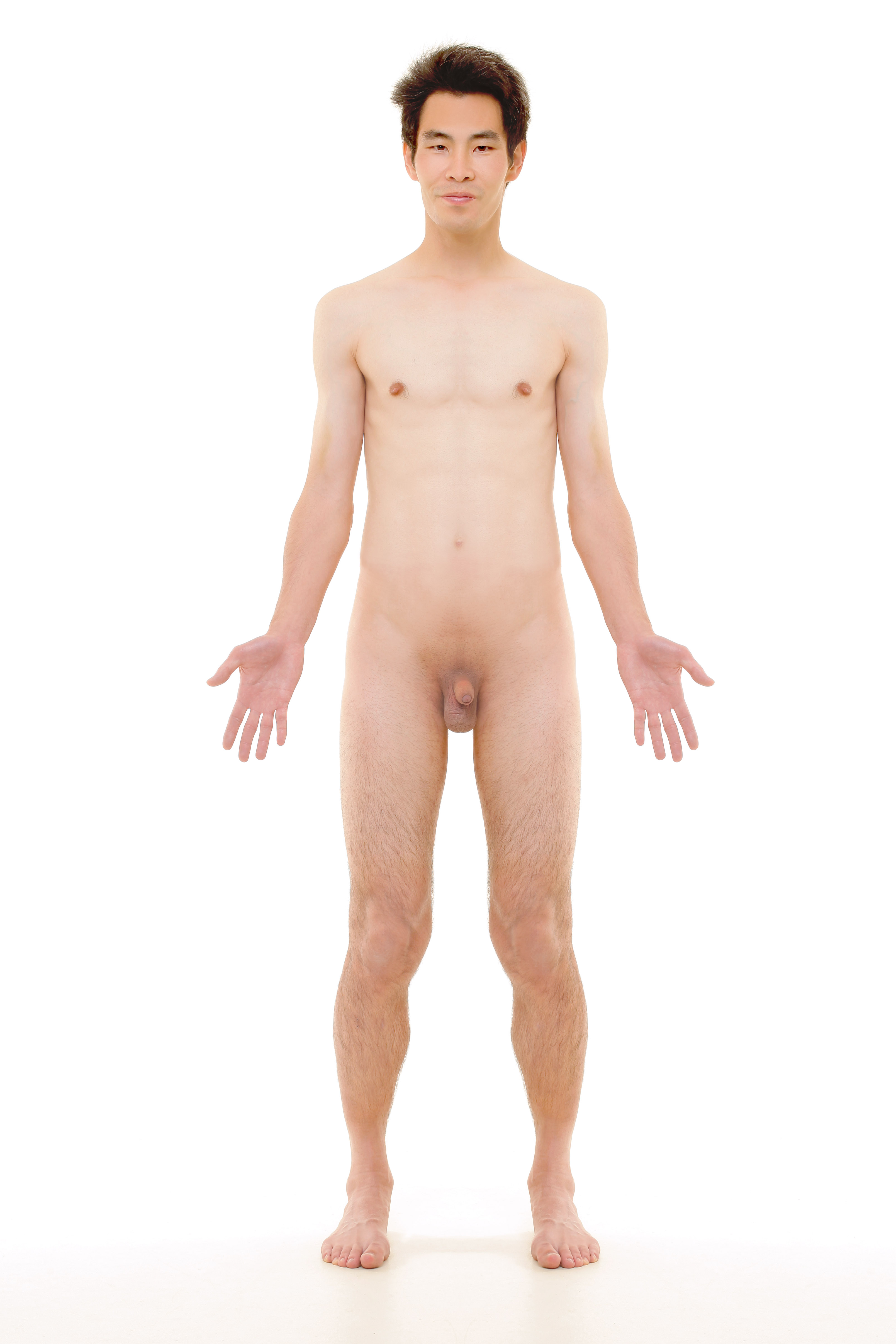 Naked male human body